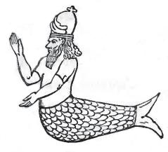 Illustration on page 495 of Curious Myths of the Middle Ages. Original description: "Oannes and Dag-on (the fish On) are identical. According to an ancient fable preserved by Berosus, a creature half man and half fish came out of “that part of the Erythræan sea which borders upon Babylonia,” where he taught men the arts of life, “to construct cities, to found temples, to compile laws, and, in short, instructed them in all things that tend to soften manners and humanize their lives;” and he adds that a representation of this animal Oannes was preserved in his day. A figure of him sporting in the waves, and apparently blessing a fleet of vessels, was discovered in a marine piece of sculpture, by M. Botta, in the excavations of Khorsabad."